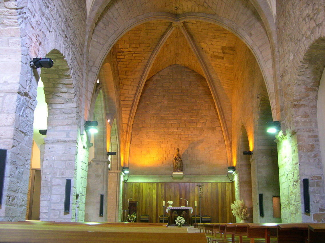 Sant Joan church in Berga, Berguedà, Catalonia (Spain).